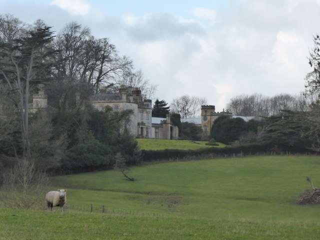 View to part of Llanerchydol Hall - A very nice country house, partly screened by trees.